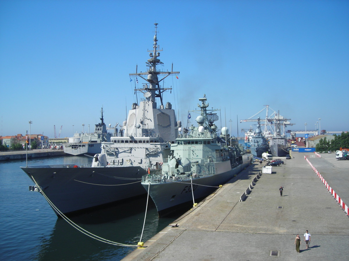 F103 Blas de Lezo (Spain), F330 Vasco da Gama (Portugal), F214 Lübeck (Germany) and FFG-47 USS Nicholas at Port of Leixões.